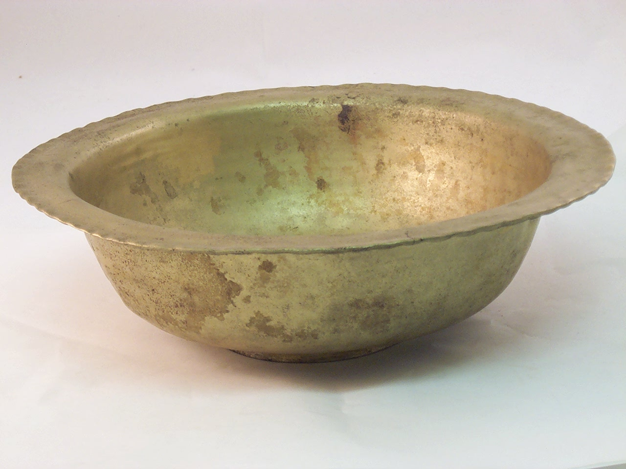 A Romano-British bronze bowl, discovered in Sandy Bedfordshire. In the stores of Bedford Museum.